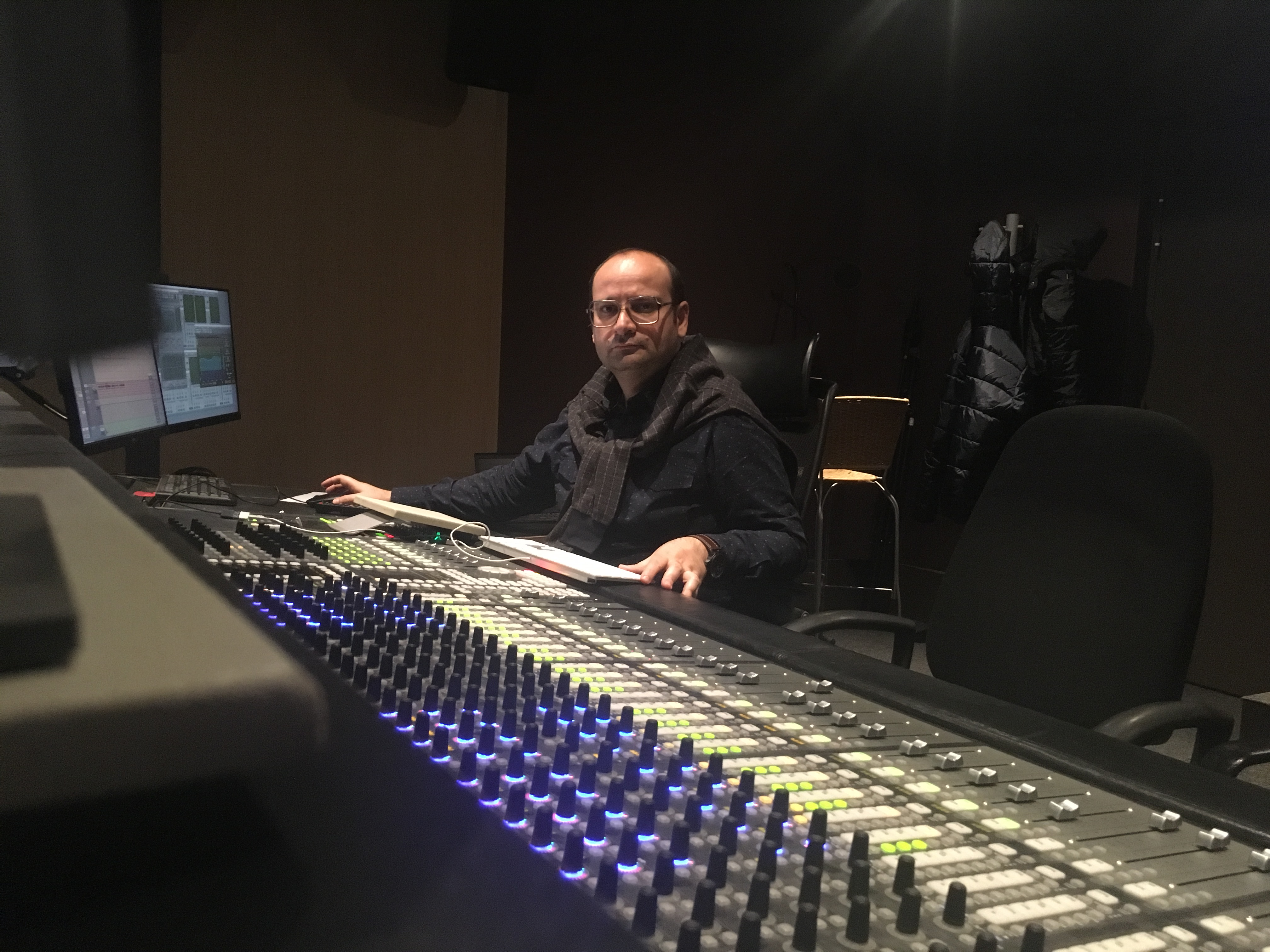 Sana Sound Studio